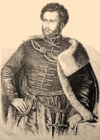 Earl István Károlyi (1797–1881)